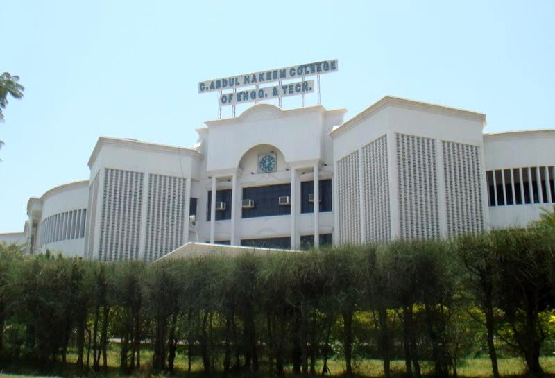 Main building of CAHCET constructed during 1998